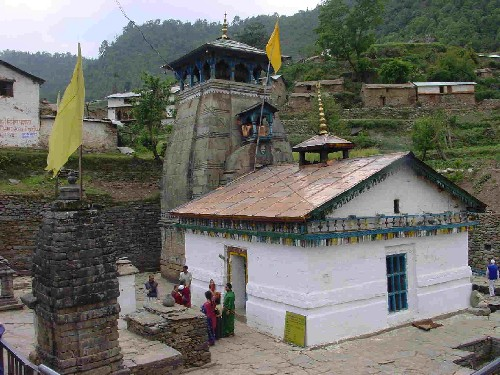 Triyuginarayan Temple